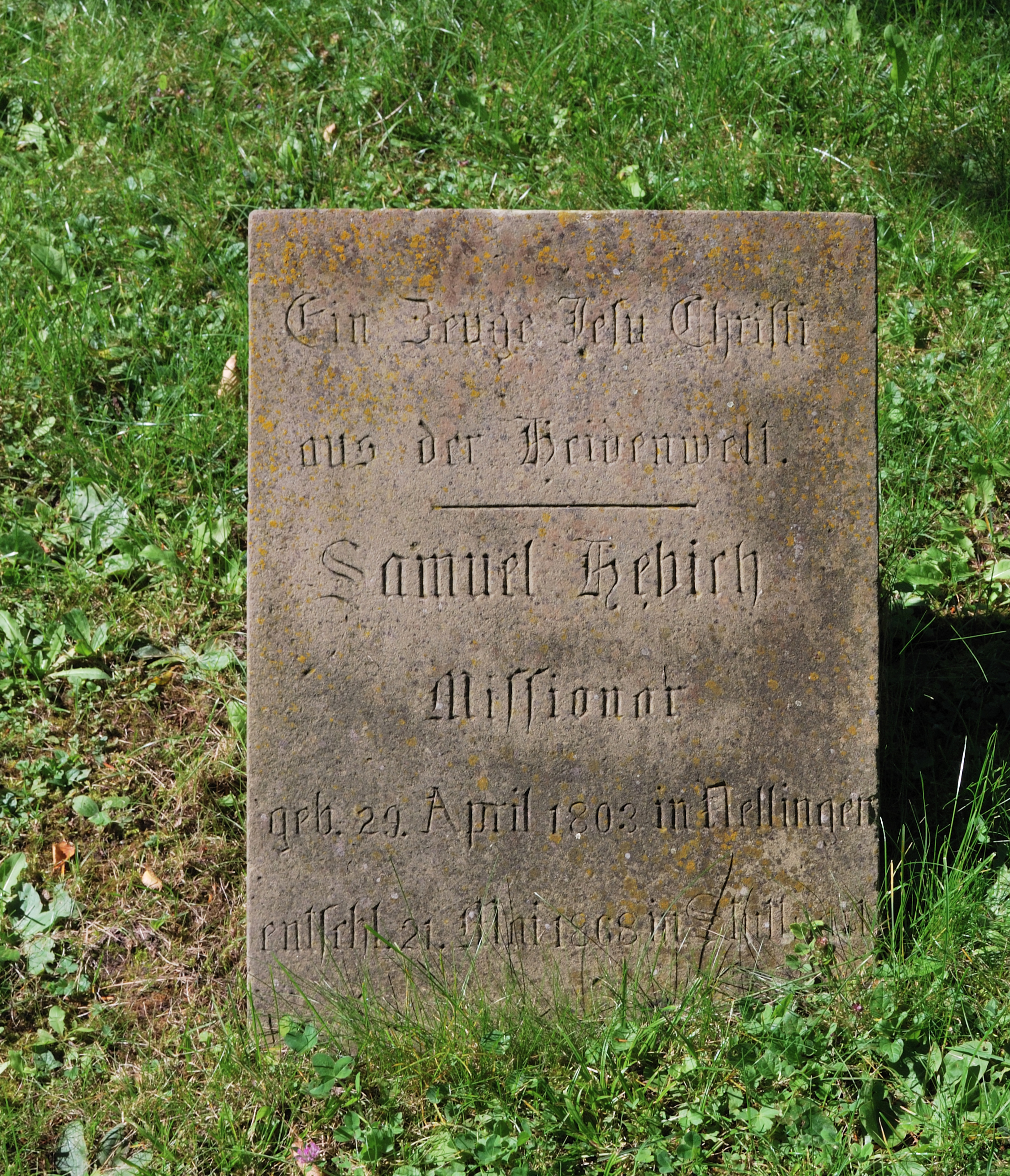 The tombstone of the German missionary Samuel Hebich on the Old Cemetery in Korntal in Southern Germany.